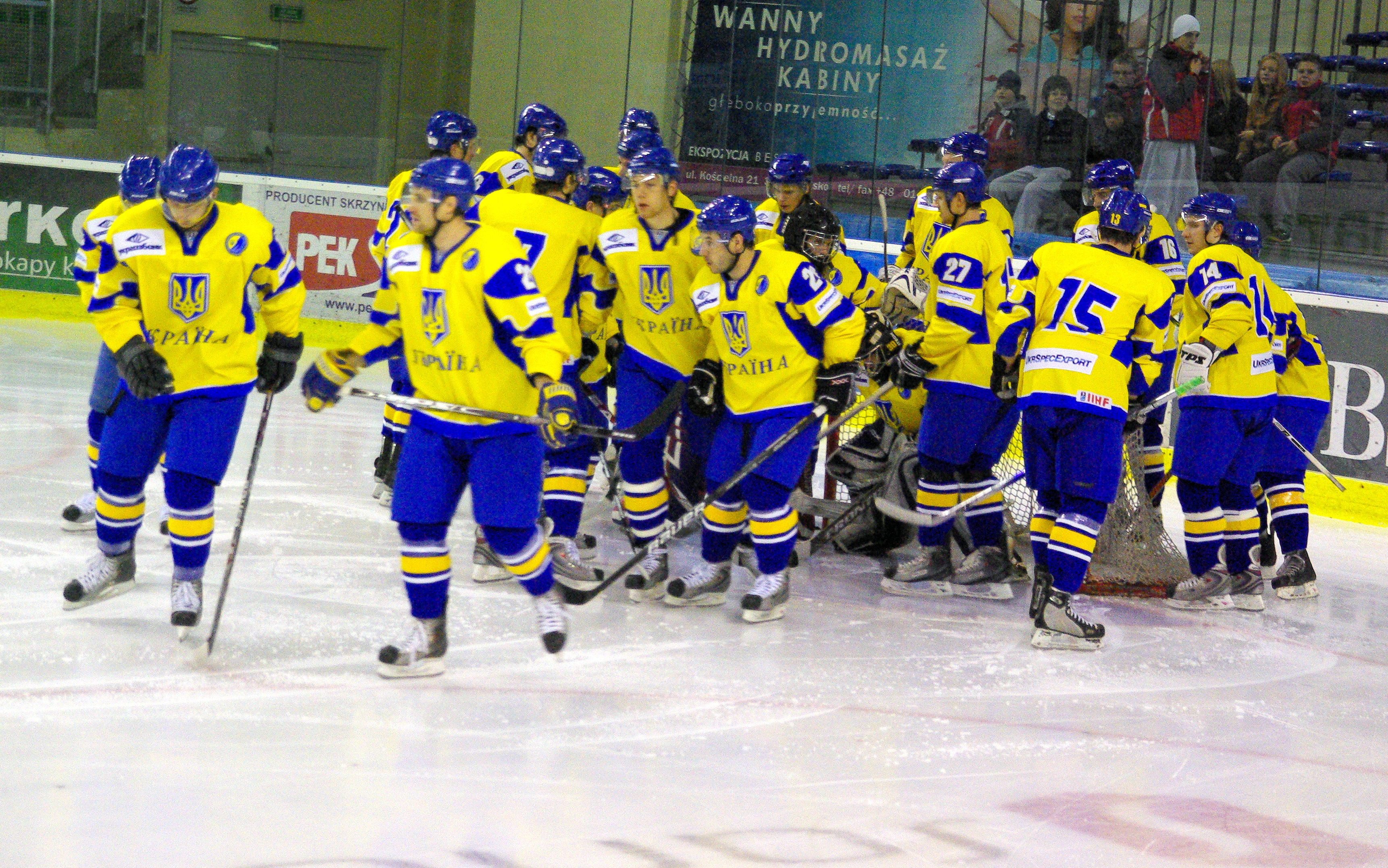 Ukraine ice hockey national team during EIHC Tournament in Sanok (Poland), November 11, 2010